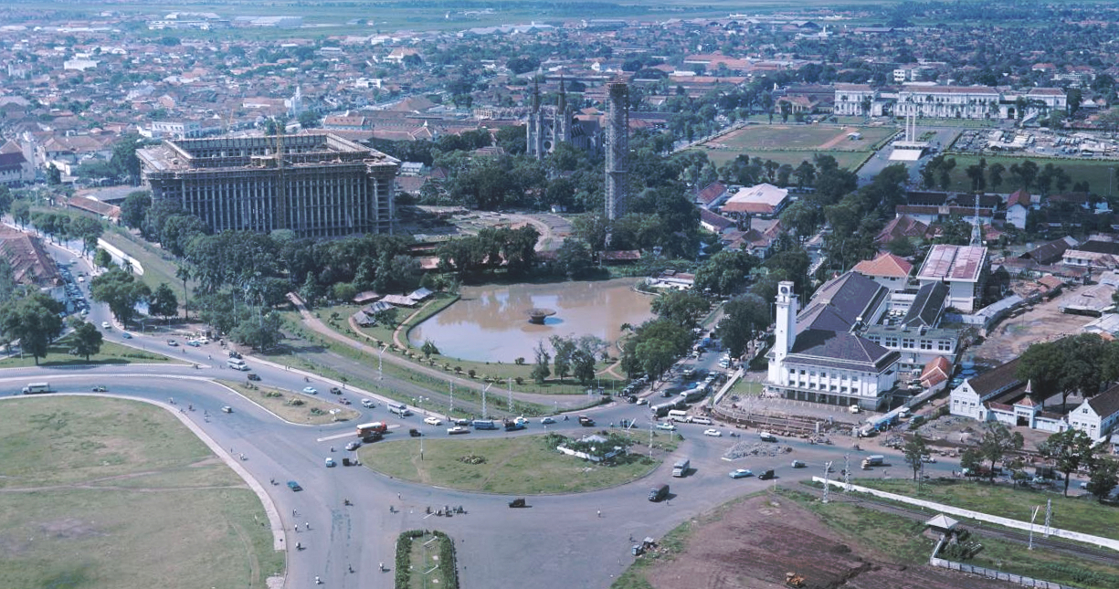 View from the National Monument (Monas) toward the Istiqlal Mosque (under construction), Jakarta Cathedral, and Lapangan Banteng